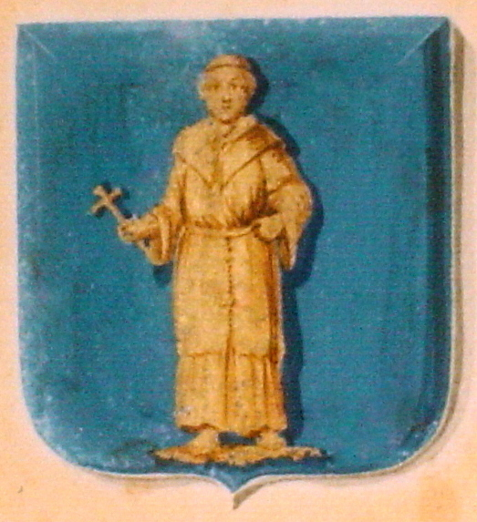 Coats of arms of former municipality Lieshout, the Netherlands